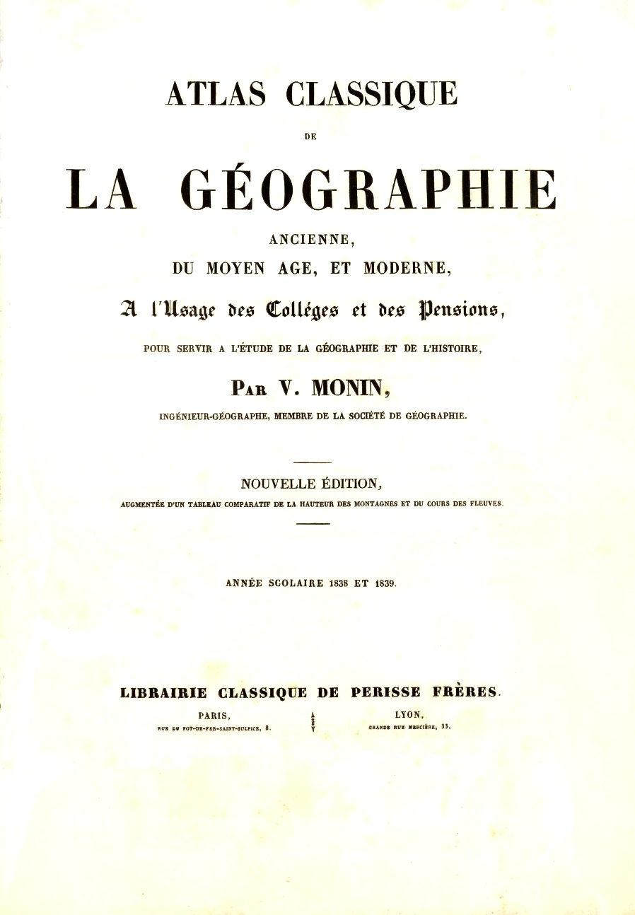 Title page of Monin’s Atlas classique